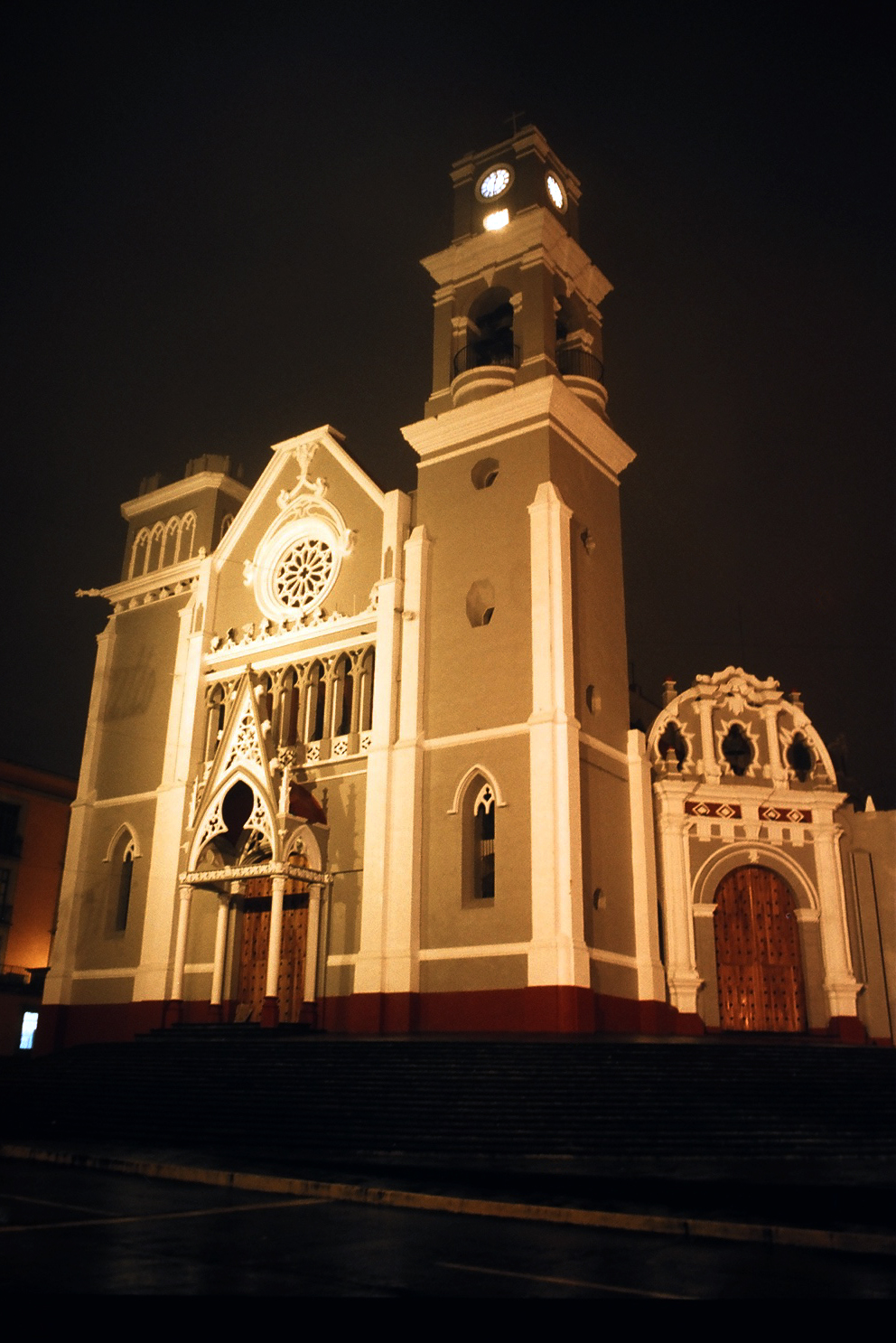 La Catedral Metropolitana de Xalapa, Purísima Concepción, Xalapa, Veracruz